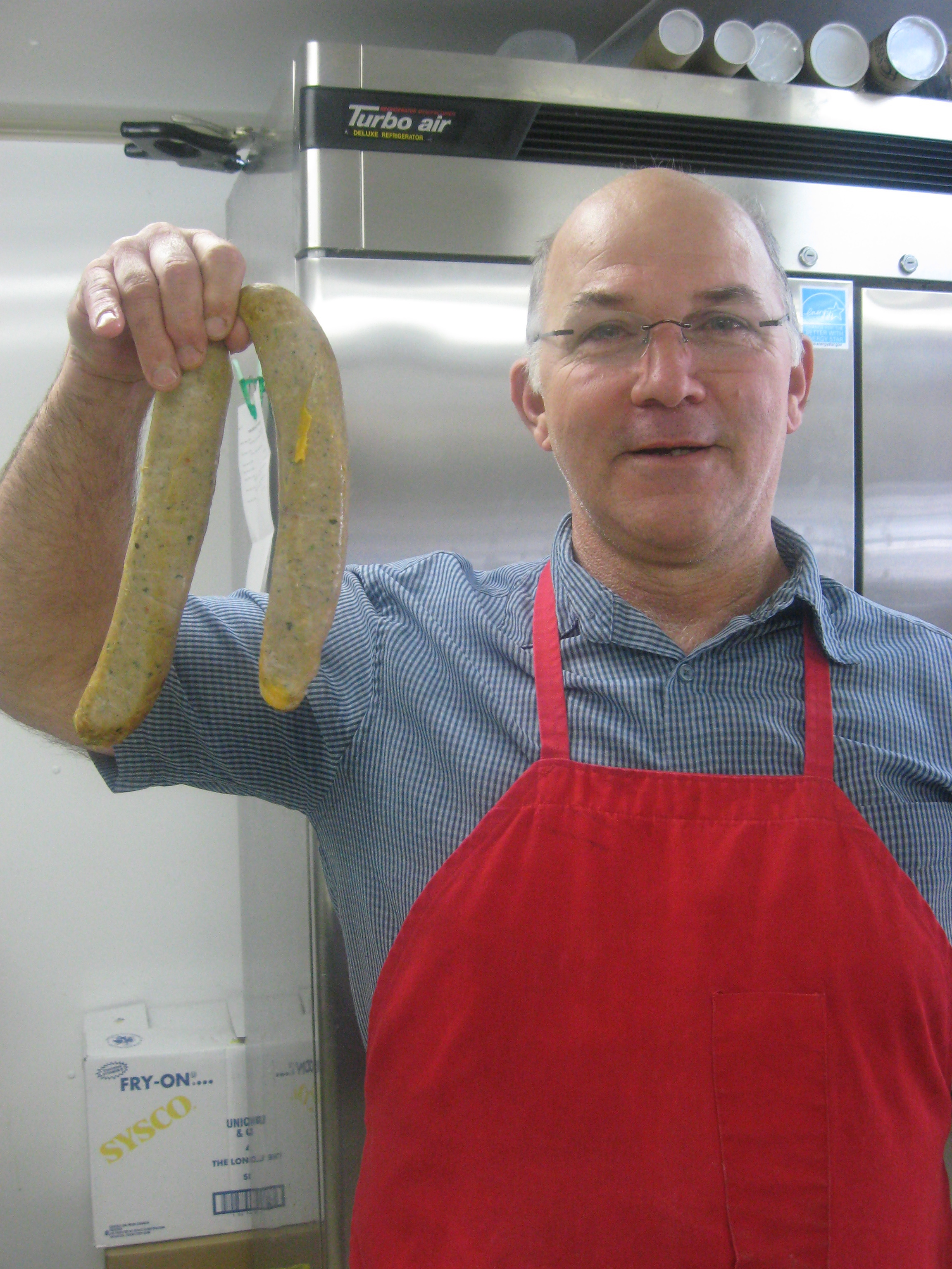 G&M Meat Market Jeanerette, LA Photos from fieldwork conducted by SFA oral historian Mary Beth Lasseter for a project documenting boudin, February 2009.